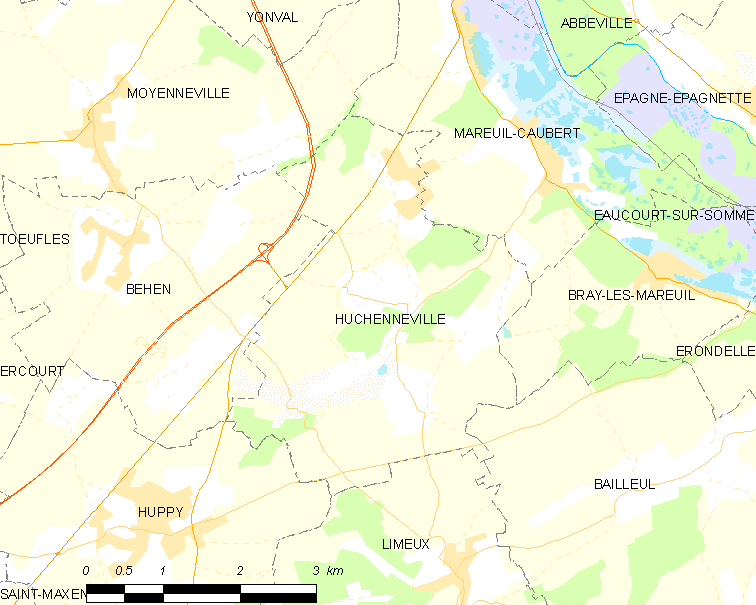 Map of French municipality Huchenneville